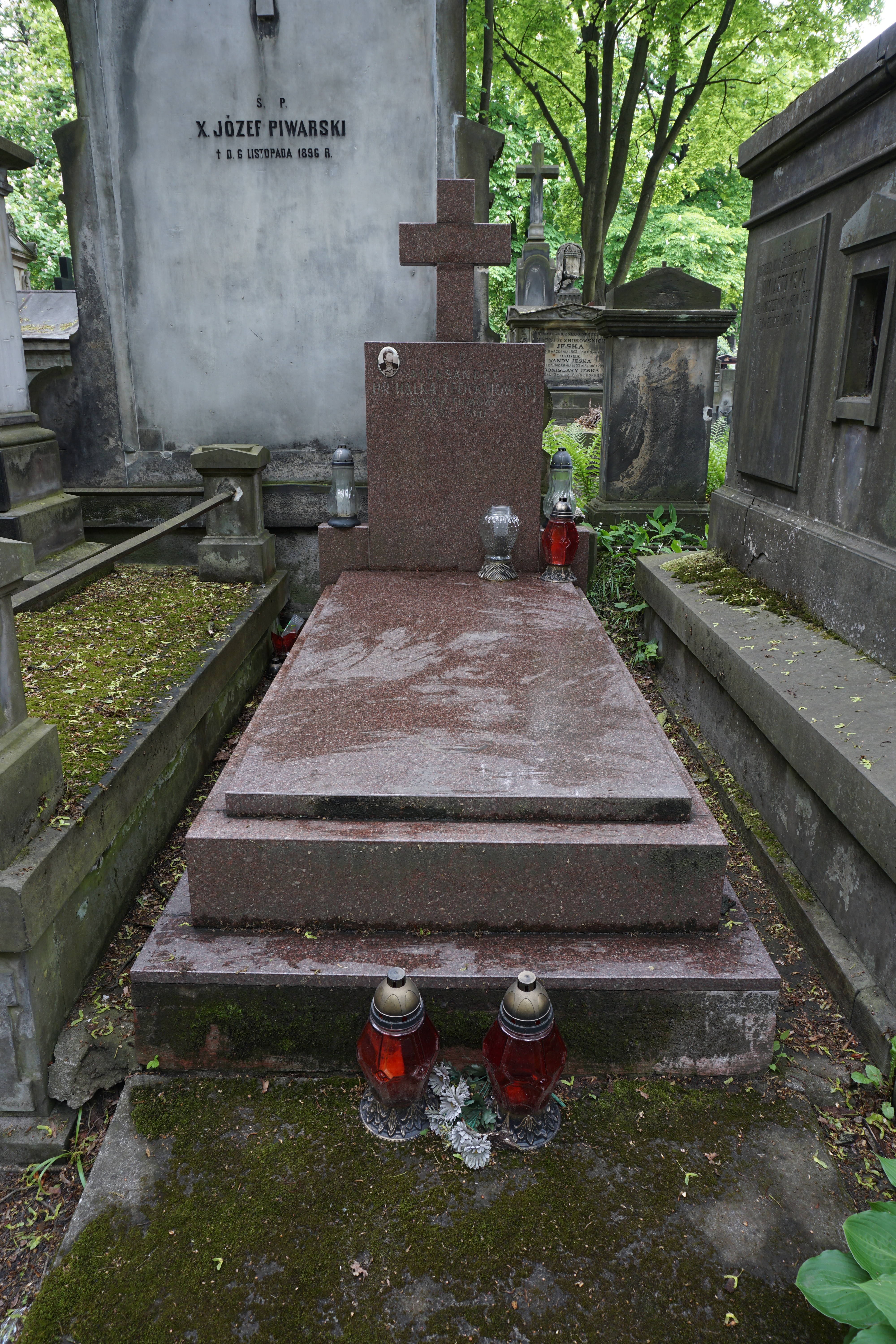 The grave of Aleksander Halka-Ledóchowski at the Powązki Cemetery (section 19, row 1, grave 24)